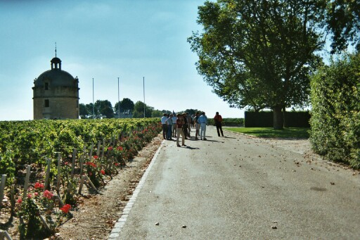 Château Latour in Pauillac